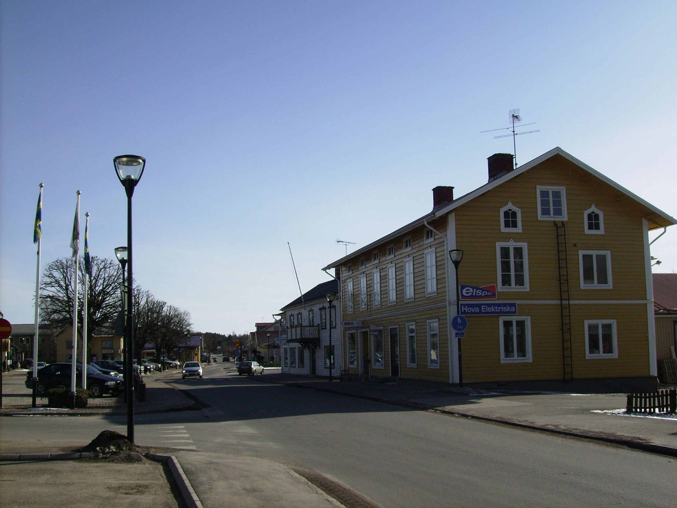 Picture at Hova in March 2009.